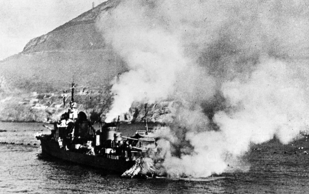 French destroyer leader Mogador burning after shellfire at Mers-el-Kebir on 3 July 1940.